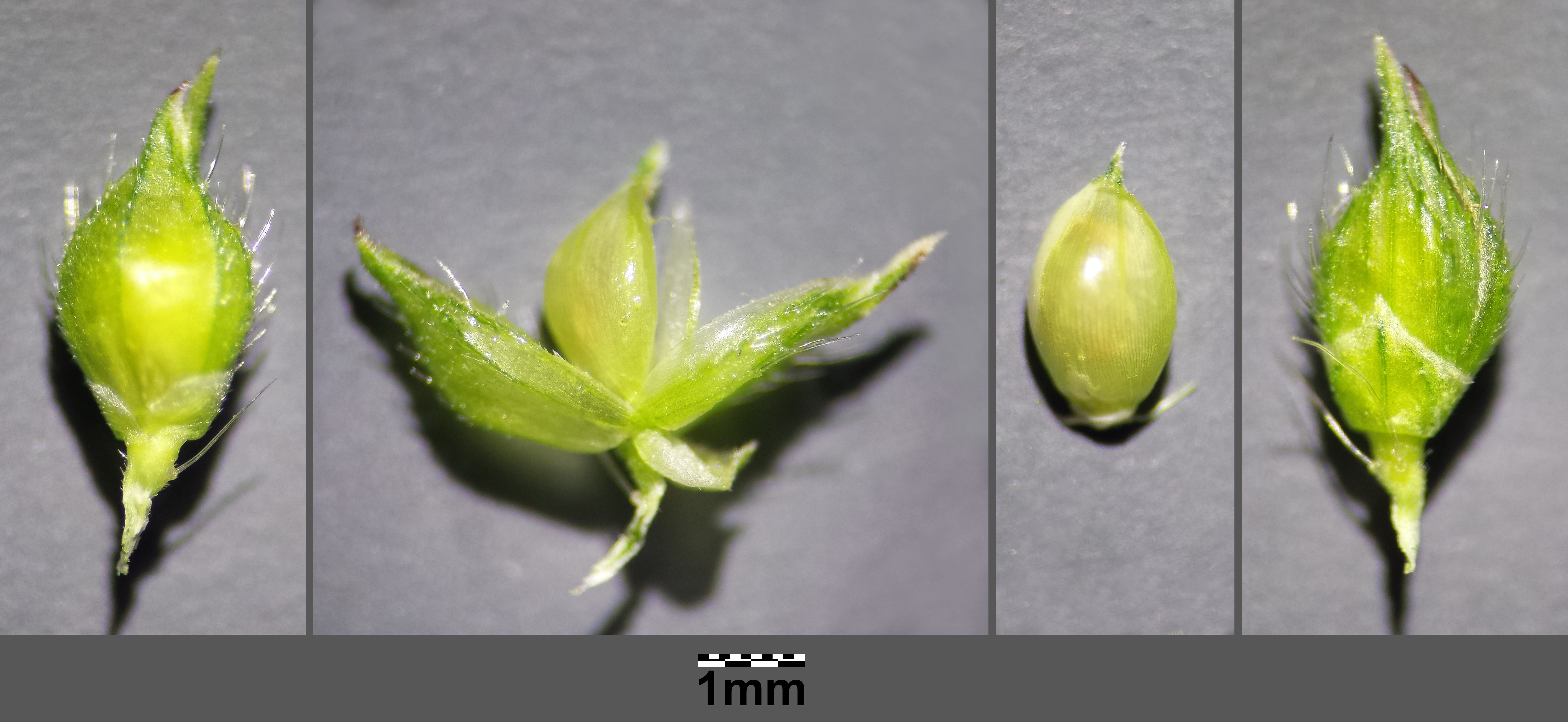 Spikelet Taxonym: Echinochloa crus-galli ss Fischer et al. EfÖLS 2008 ISBN 978-3-85474-187-9 Location: between Michelberg and Steinberg near Niederhollabrunn, district Korneuburg, Lower Austria - ca. 350 m a.s.l. Habitat: field